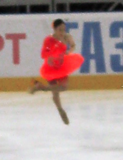 Yukari Nakano in a jump at the 2007 Russia Cup ladies free skate.